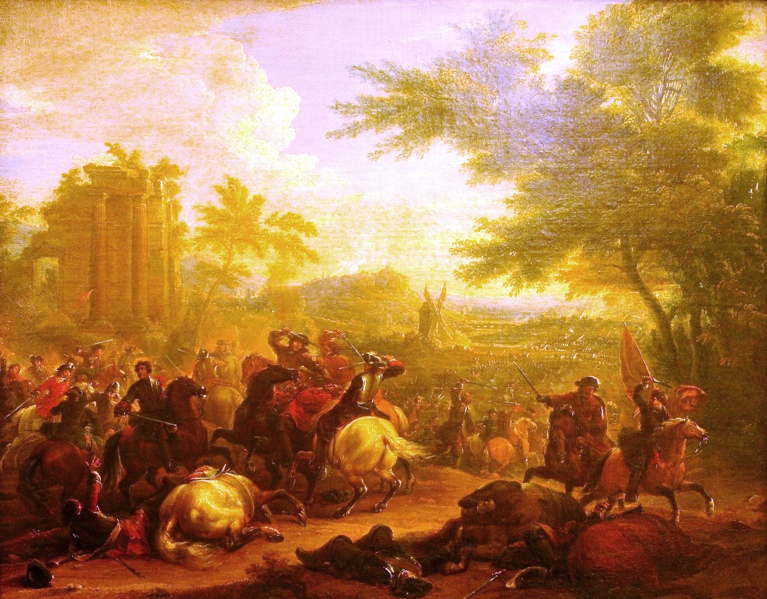 The battle of Cassano 1705 (War of the Spanish Succession), painted by Jean Baptiste Martin (1659-1735). Oil on canvas, Heeresgeschichtliches Museum, Vienna, Austria.